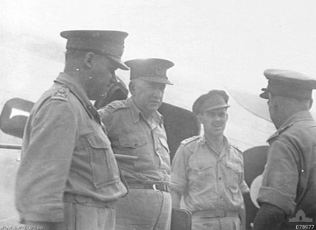 AITAPE, NEW GUINEA. VX17 Major General J. E. S. Stevens DSO ED, General Officer Commanding, 6th Division (right) greets VX63396 Lieutenant General J. Northcott CB MVO, Chief Of the General Staff (left), VX89075 Major General J. H. Cannan CB CBG DSO VD, Quartermaster General, Land Headquarters (second from left) And VX19 Major General C. S. Steele DSO MC VD, Engineer In Chief, Land Headquarters (third from left) on their arrival at Tadji Airstrip from Hollandia by Royal Australian Air Force Lockheed Hudson" Aircraft